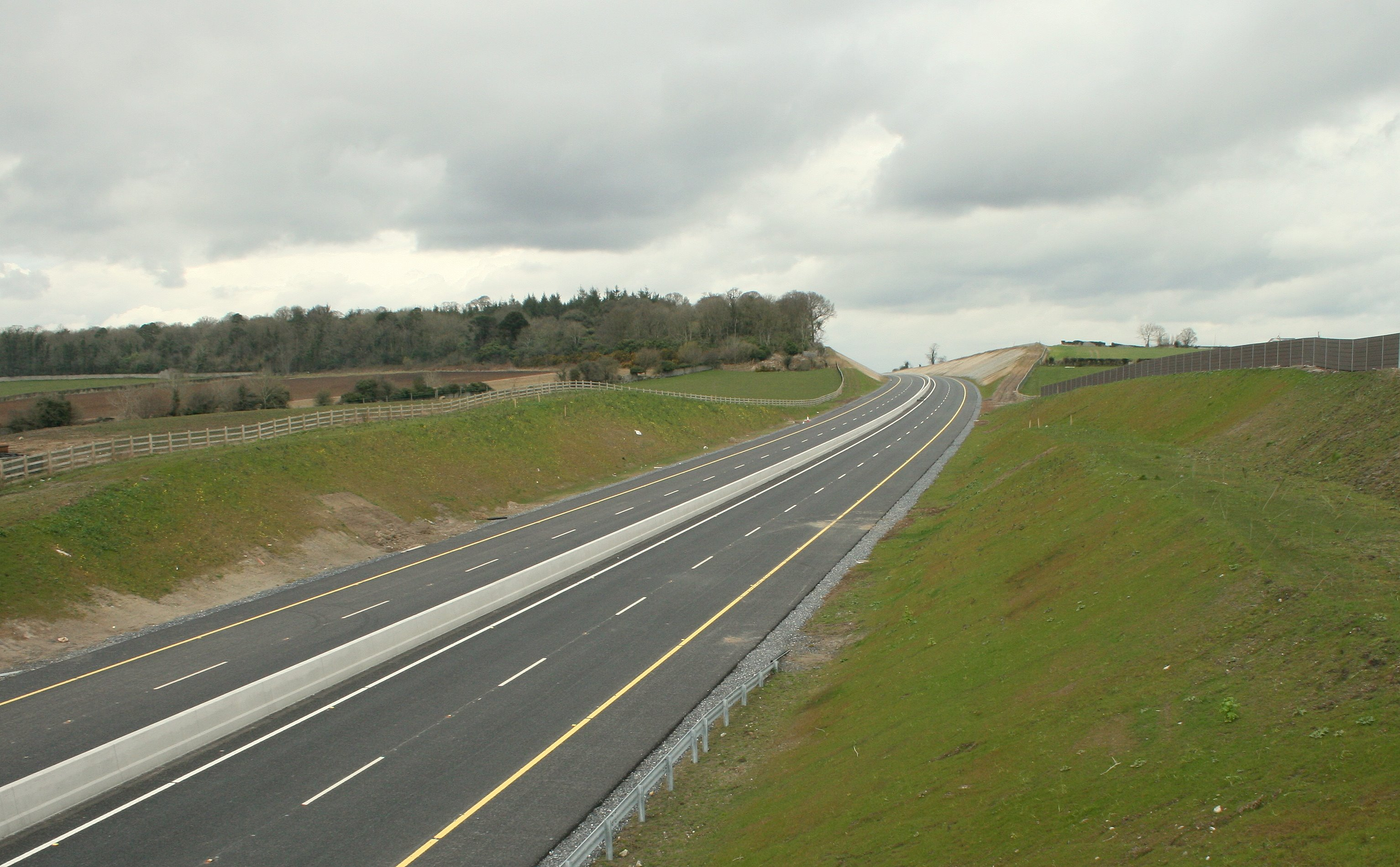 The M9 Carlow Bypass under construction, Ireland